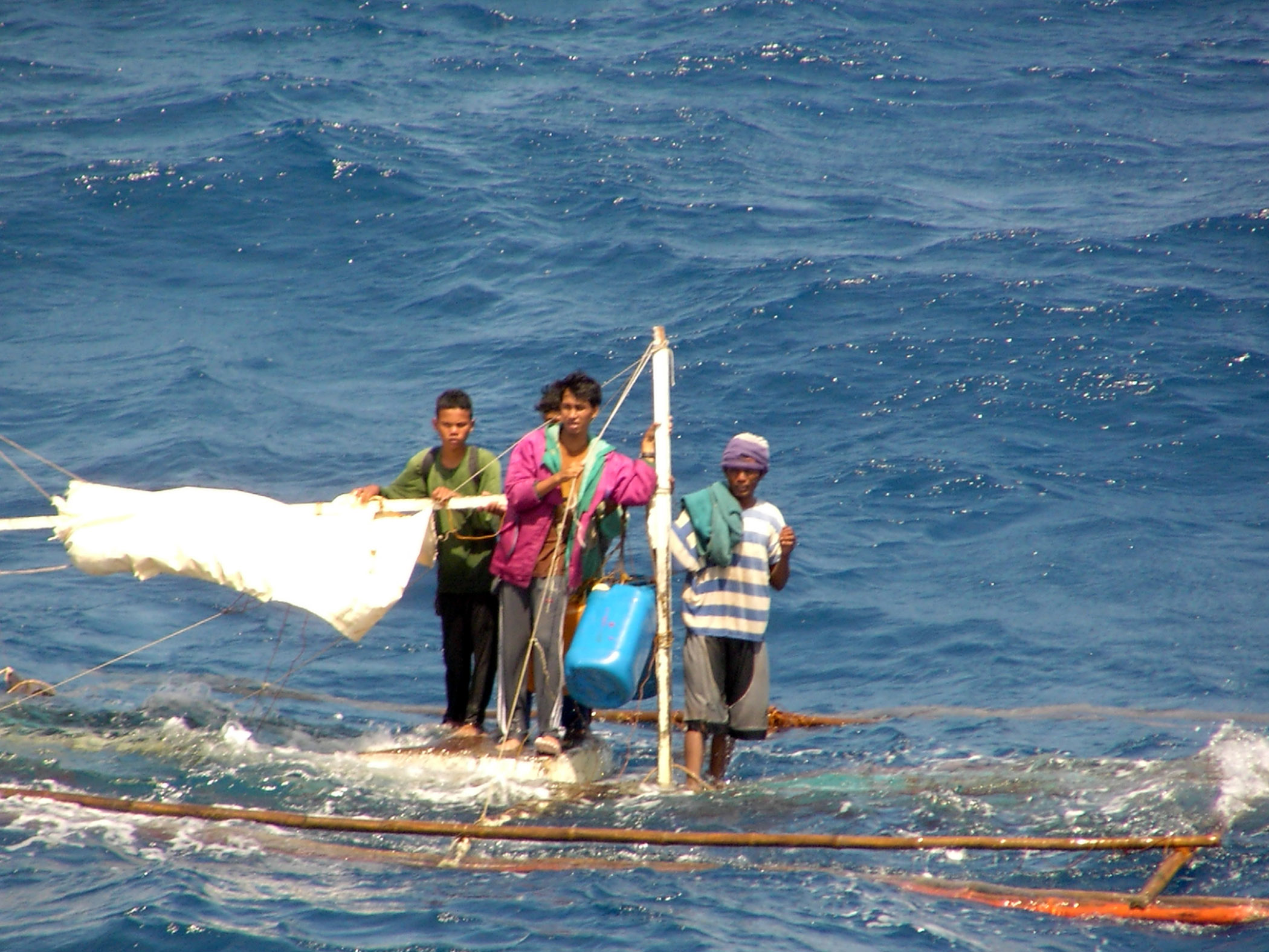 Subic, Philippines (Oct. 19, 2006) - Four men stand on the remains of their submerged vessel waiting for assistance from a small boat assigned to the Navy’s High Speed Vessel Swift (HSV 2). Swift rescued the men after it’s embarked SH-60B Seahawk helicopter noticed the submerged craft. Swift is currently conducting routine operations in the U.S. Seventh Fleet area of responsibility. U.S. Navy photo (RELEASED)